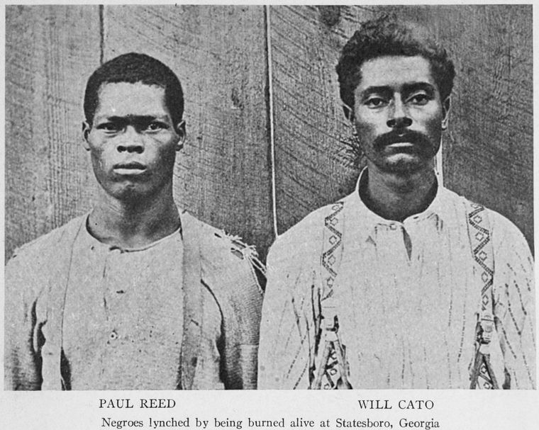 Photo of Paul Reed and Will Cato taken before a mob chained them to a pine stump and burned them to death.